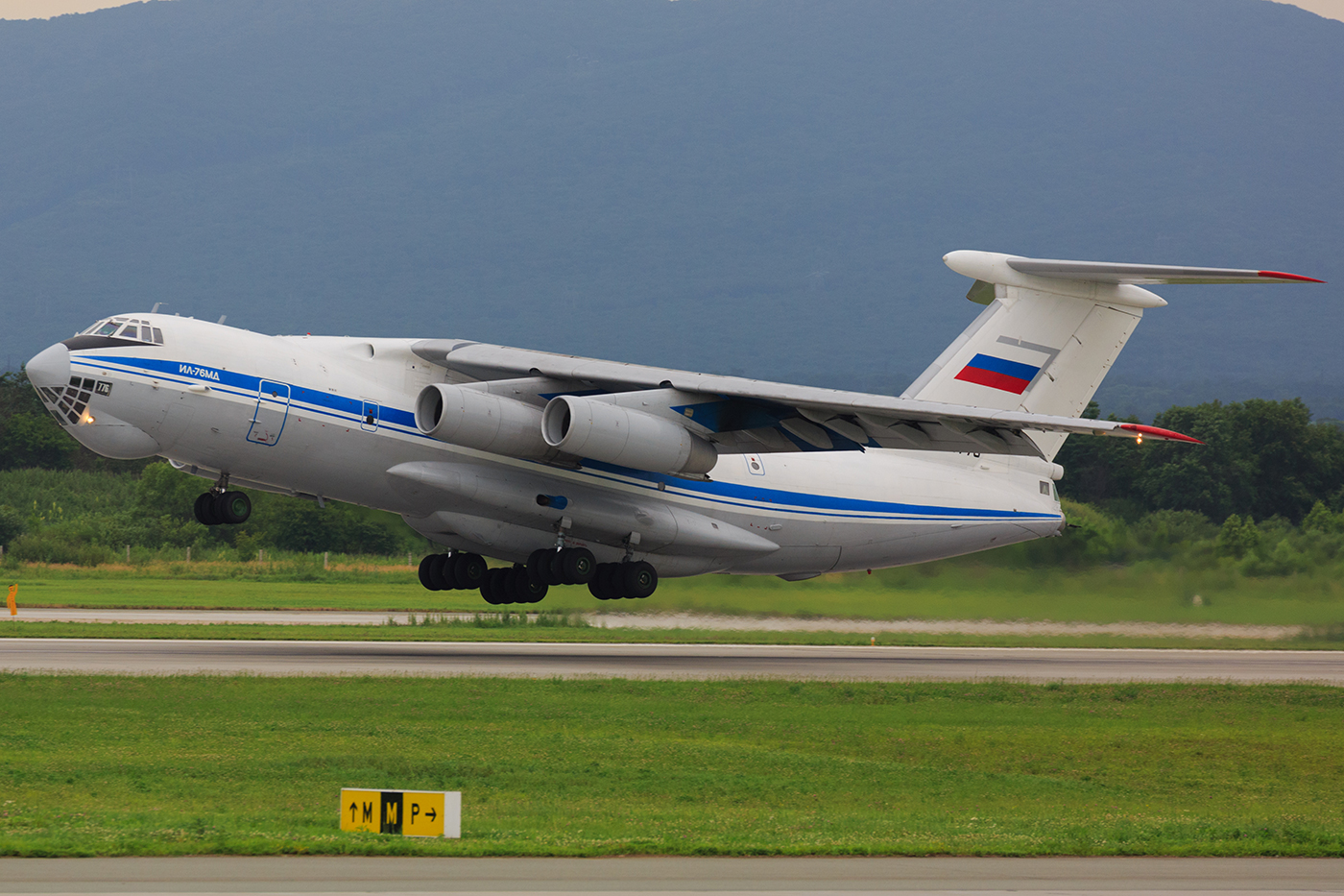 Russian Federation Air Force Ilyushin Il-76MD at Vladivostok Airport